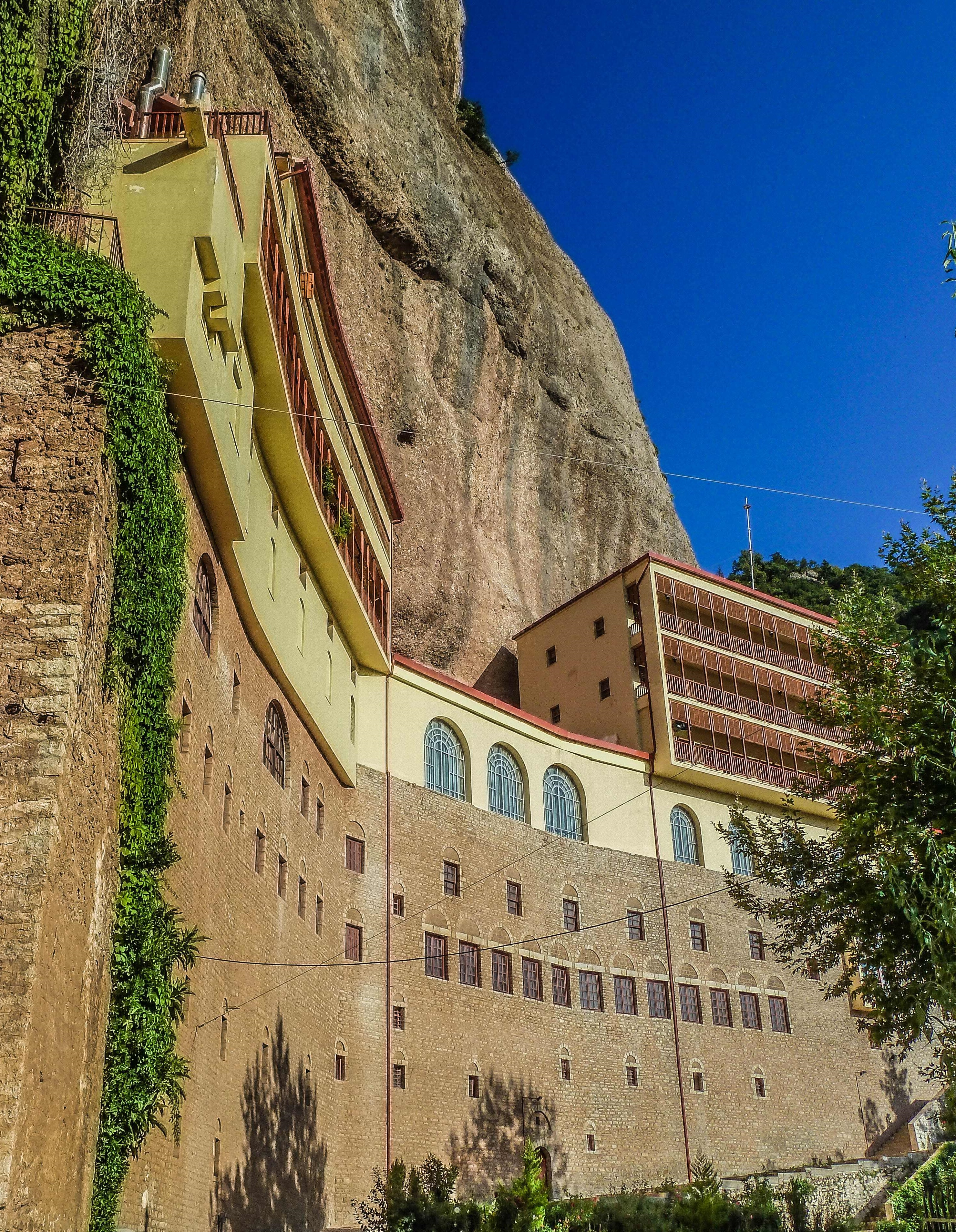 Mega Spilaio Monastery.«Μονή Μεγάλου Σπηλαίου»